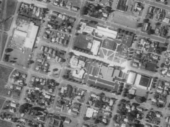 Aerial image of Centralia College in Washington (state).